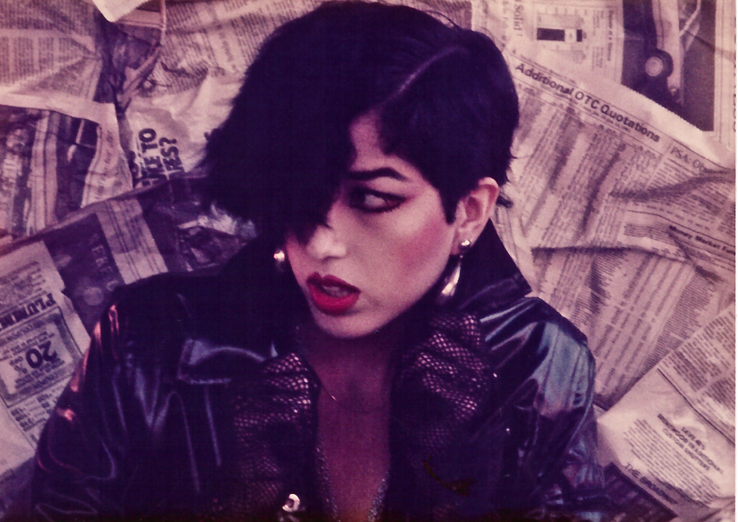 An early 1980s photo of Alice Bag in the New Romantic fashion style, with lace gloves, heavy make-up and a pompadour hairstyle.